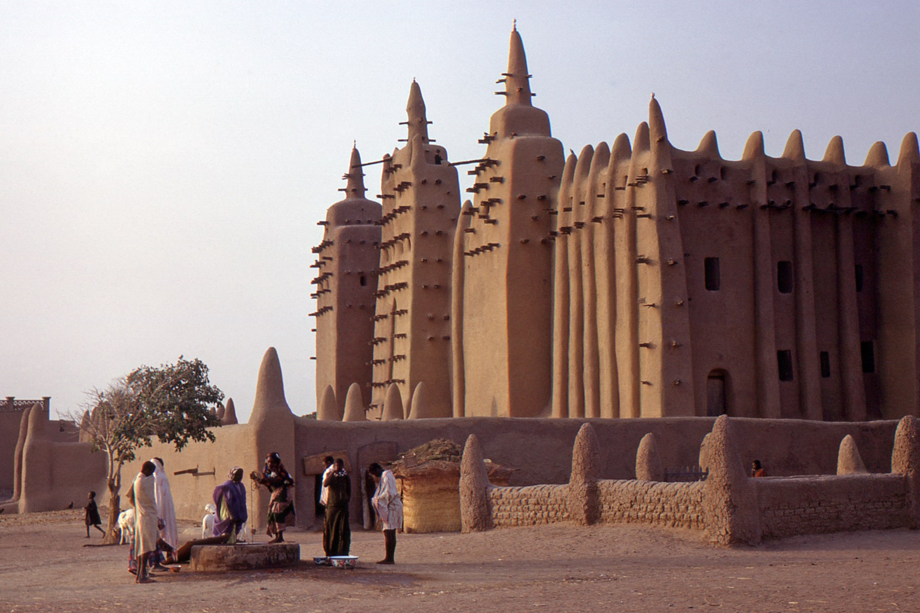 The Great Mosque, Djenne, Mali. Date Shot: 27/12/1972 at 7:20.